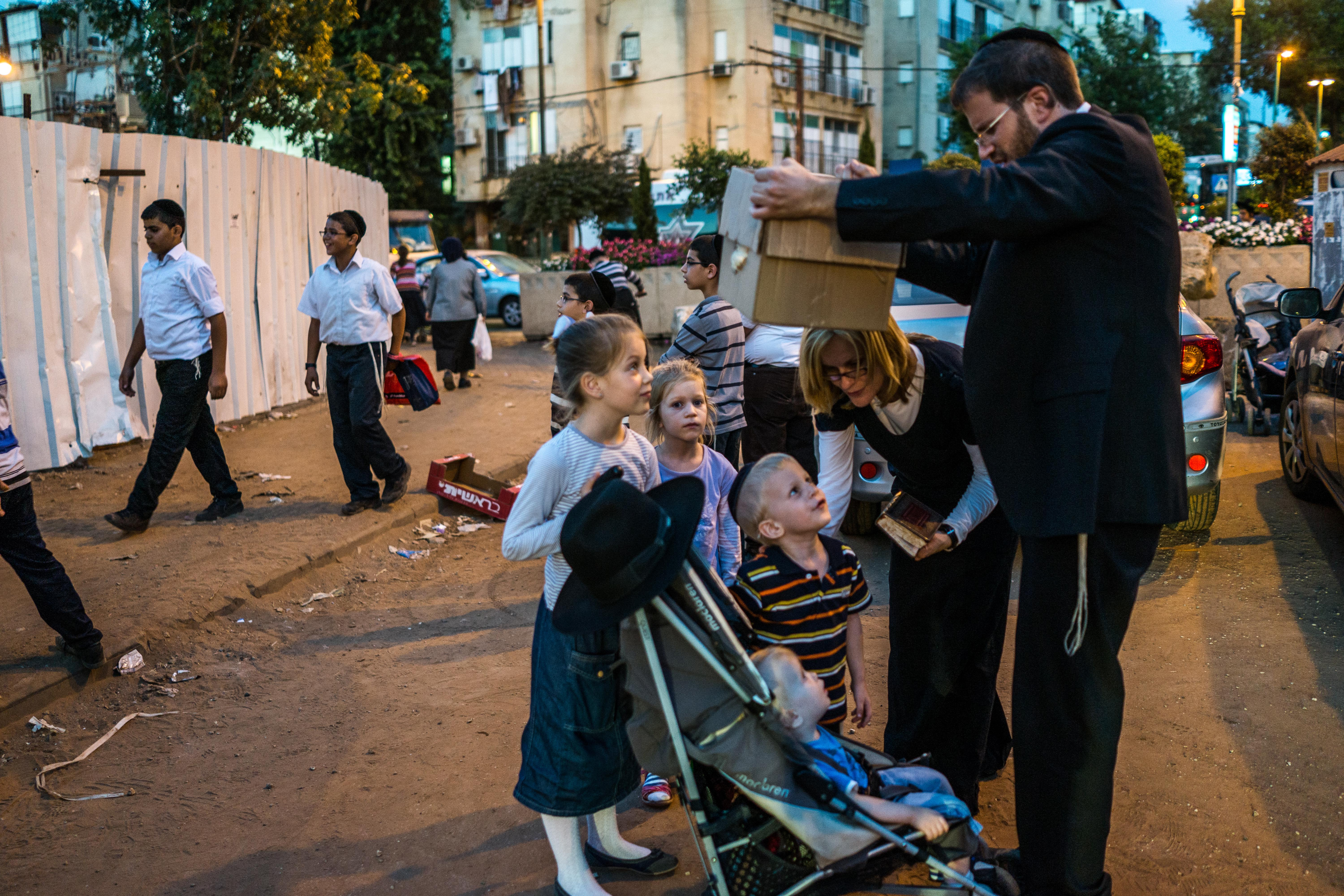 Kapparot in Bnei Brak, Jewish holidays